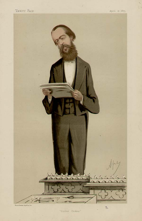 Caricature of Mr HC Raikes MP. Caption read "Order, order".